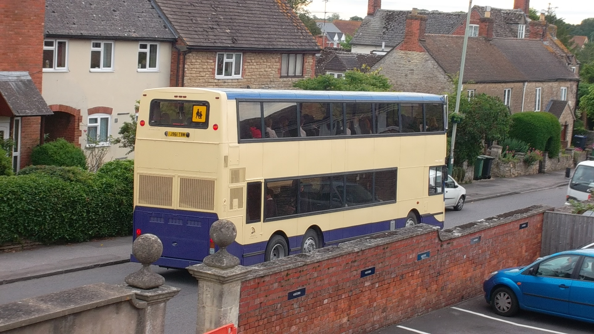 An ex-CLP Leyland Olympian bus in HK, It sold to England to Kinch of Minty, serve as a school bus, Reg. J961 TBW. Taken in Calcutt street, Cricklade, Wiltshire.